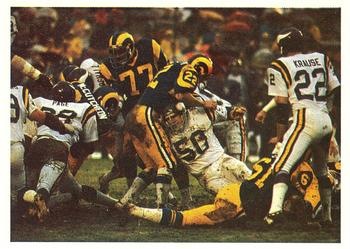 A football card from the 1986 Jeno's Pizza NFL football card stickers set of Minnesota Vikings defensive tackle Alan Page tackles Los Angeles Rams running back Lawrence McCutcheon (left) in the 1977 NFC Divisional Playoff Game on December 26, 1977. The card is numbered #18 in the set. The back of the card reads: VIKINGS WIN THE MUD BOWL All-pro defensive tackle Alan Page of Minnesota (88, left) tackles Los Angeles running back Lawrence McCutcheon, as the Vikings beat the Rams 14-7 in their 1977 NFC Divisional Playoff Game. A heavy downpour turned the Los Angeles Coliseum field to mud, but it didn't hamper the Vikings' defense, which shut out the Rams until late in the fourth quarter.